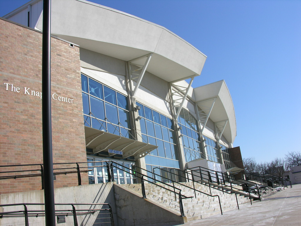 The Knapp Center at Drake University (Photograph taken by Kevin Satoh in 2006)